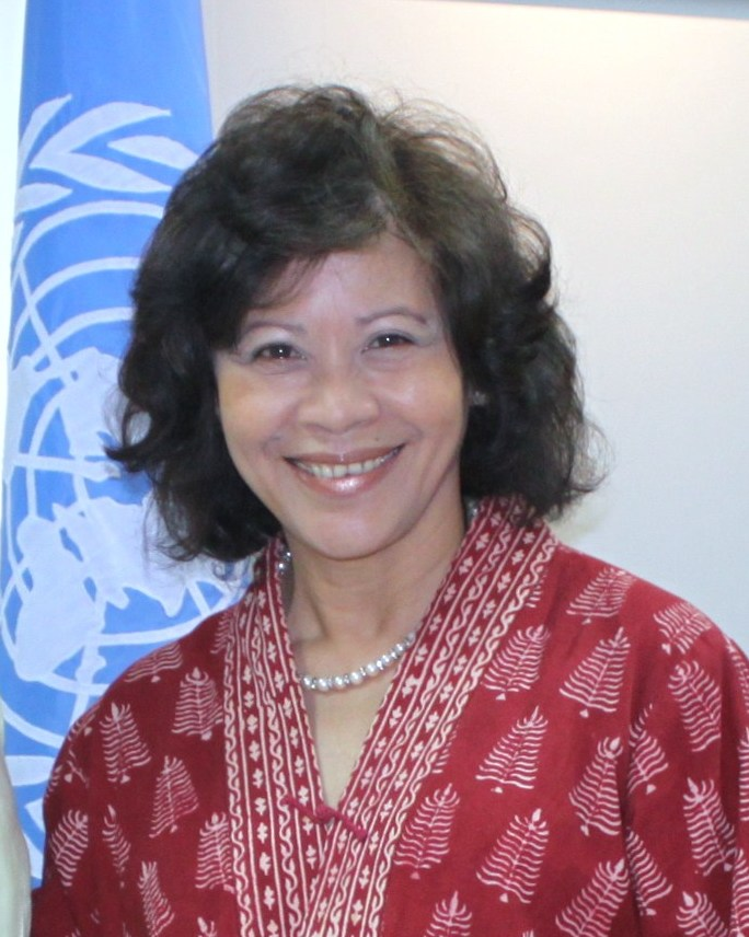 Noeleen Heyzer - ES of Economic and Social Commission for Asia and the Pacific (ESCAP) at the Bangkok Climate Change Talks, August 2012